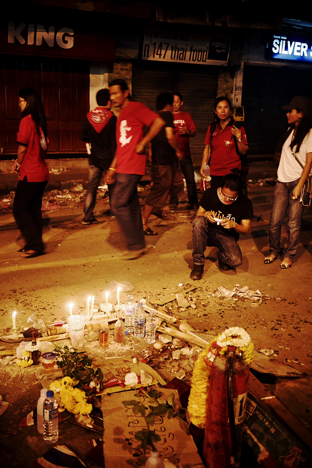 People have lighted candles to commemorate on those who were killed in the night from 10 April on 11 April 2010